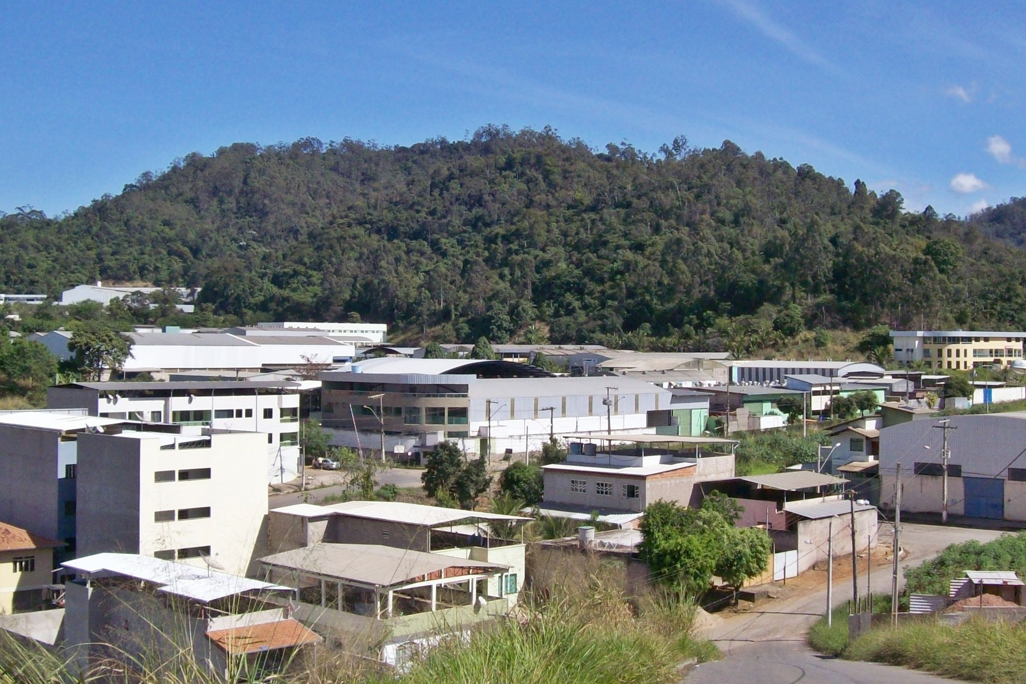 Partial view of the Distrito Industrial (industrial district) seen from of the Alto Belvedere, in Coronel Fabriciano, Minas Gerais, Brazil.